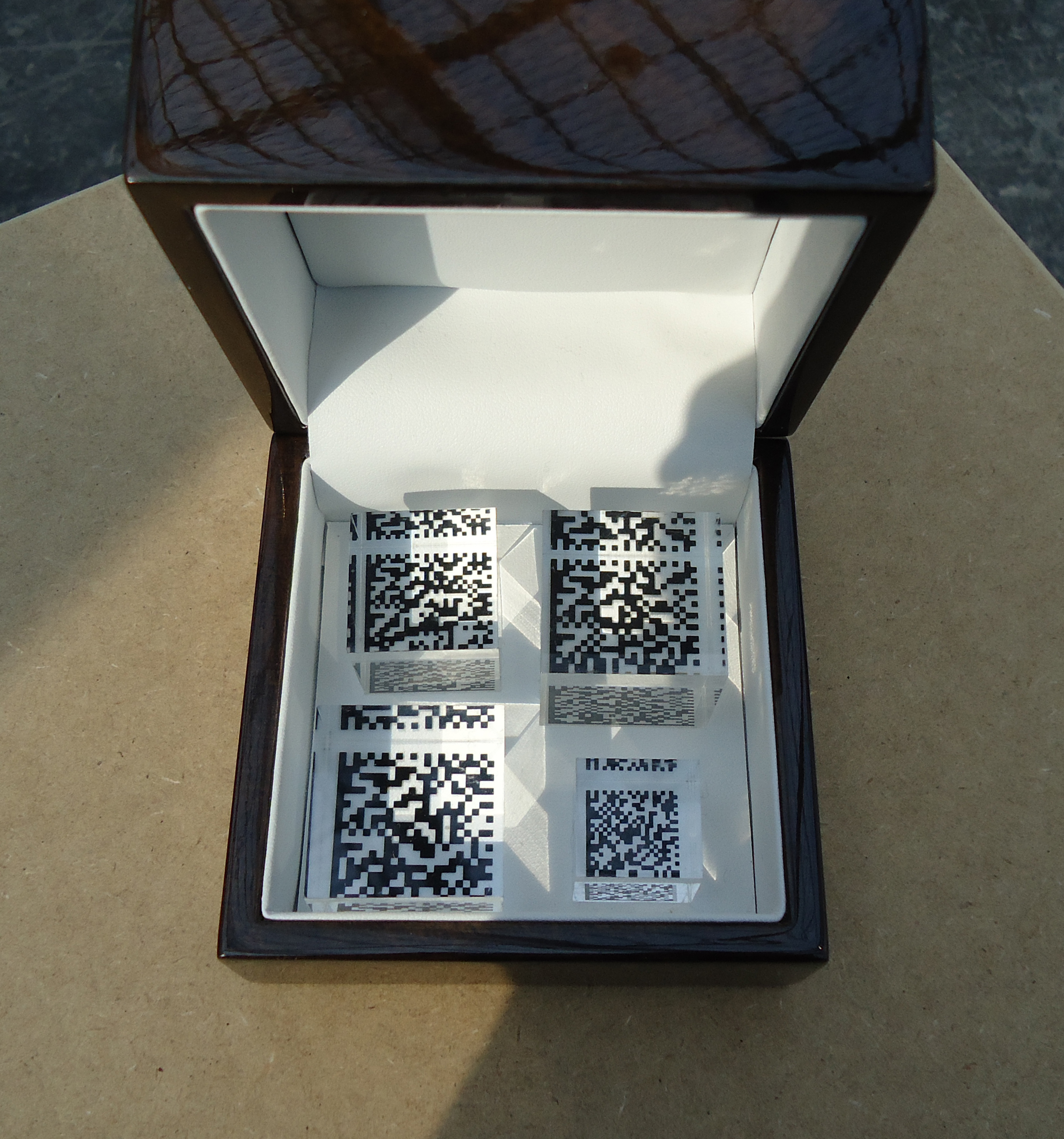 objects